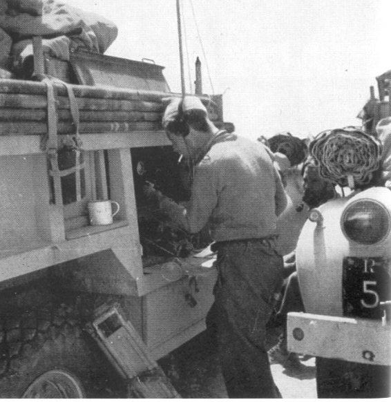 A radio operator of 'R1' Patrol working on a 30 cwt Chevrolet 1533X2 Category:LRDG Category:Groups of World War II Category:Special forces of New Zealand Category:Special forces units and formations Category:Military units and formations established in 1940 Long Range Desert Group Long Range Desert Group